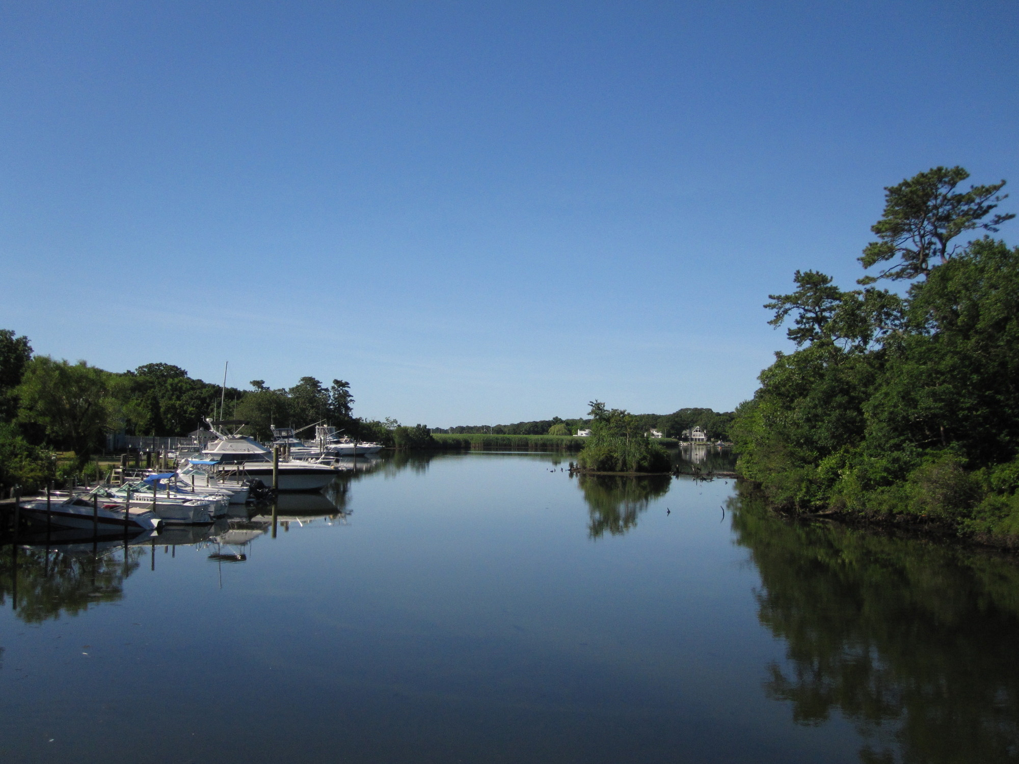 Swan River ... by Stevan